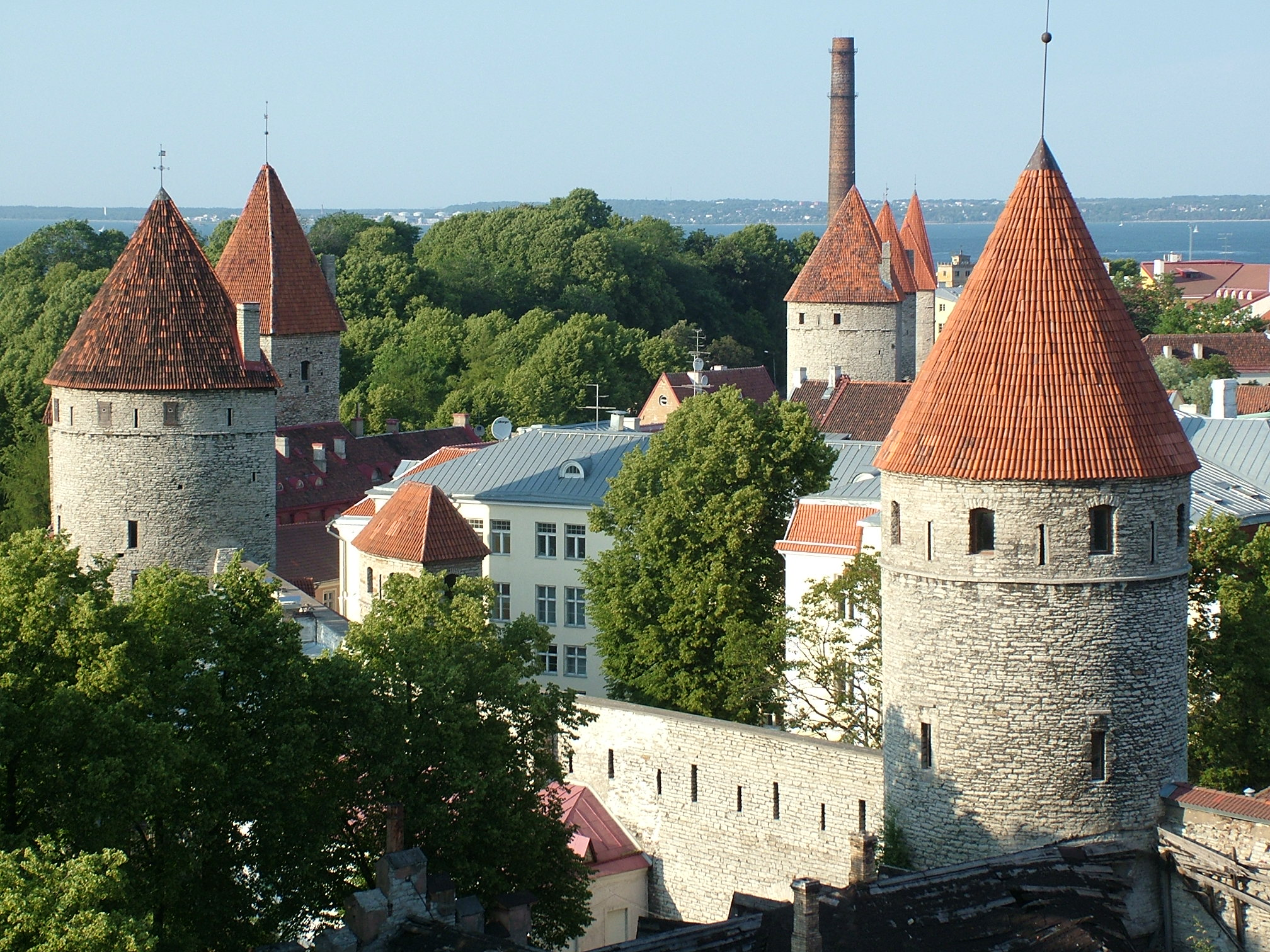 View from Toompea on wall of Tallinn, Estonia.